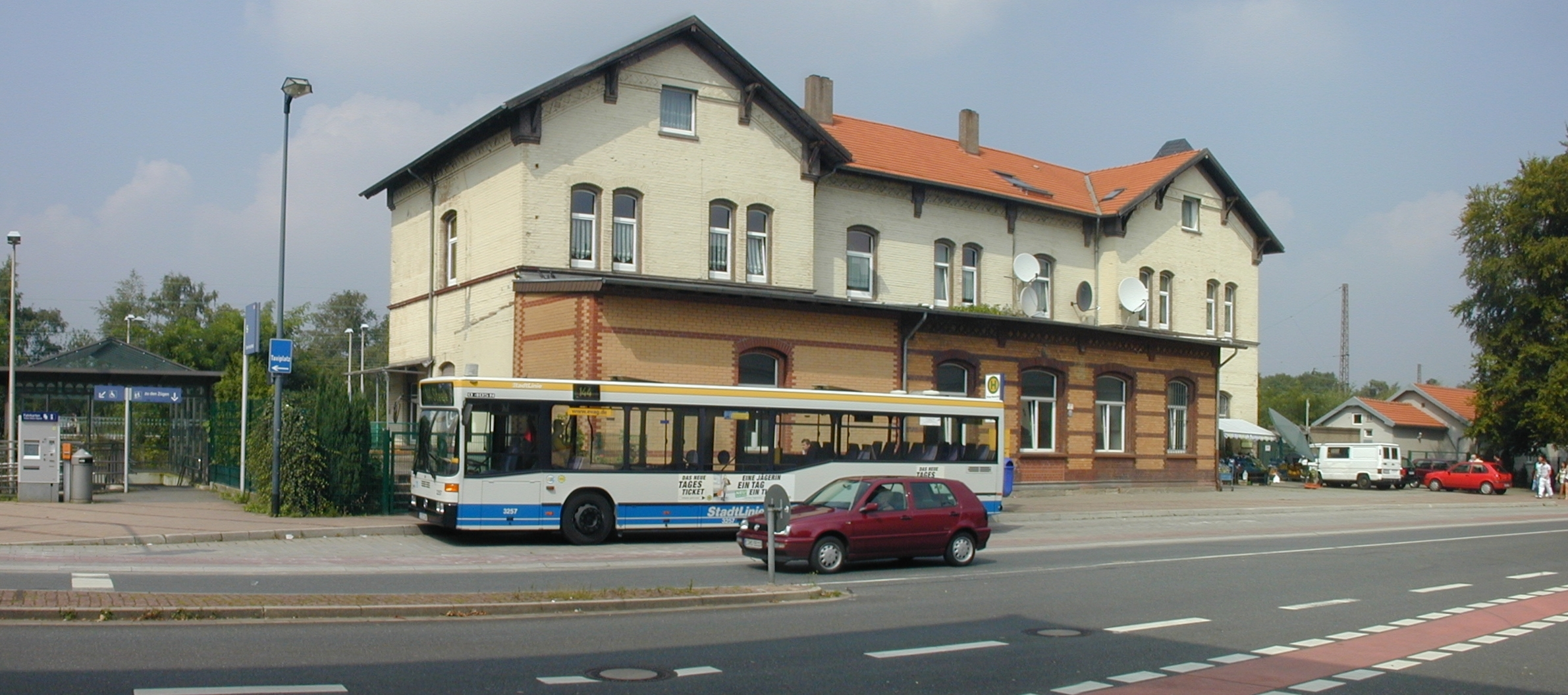 Bahnhof Essen-Kray Nord This panoramic image was created with Autostitch (stitched images may differ from reality).